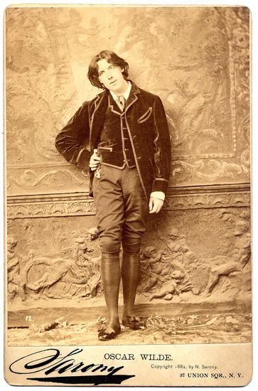 Portrait of Oscar Wilde (1854-1900) in New York, 1882